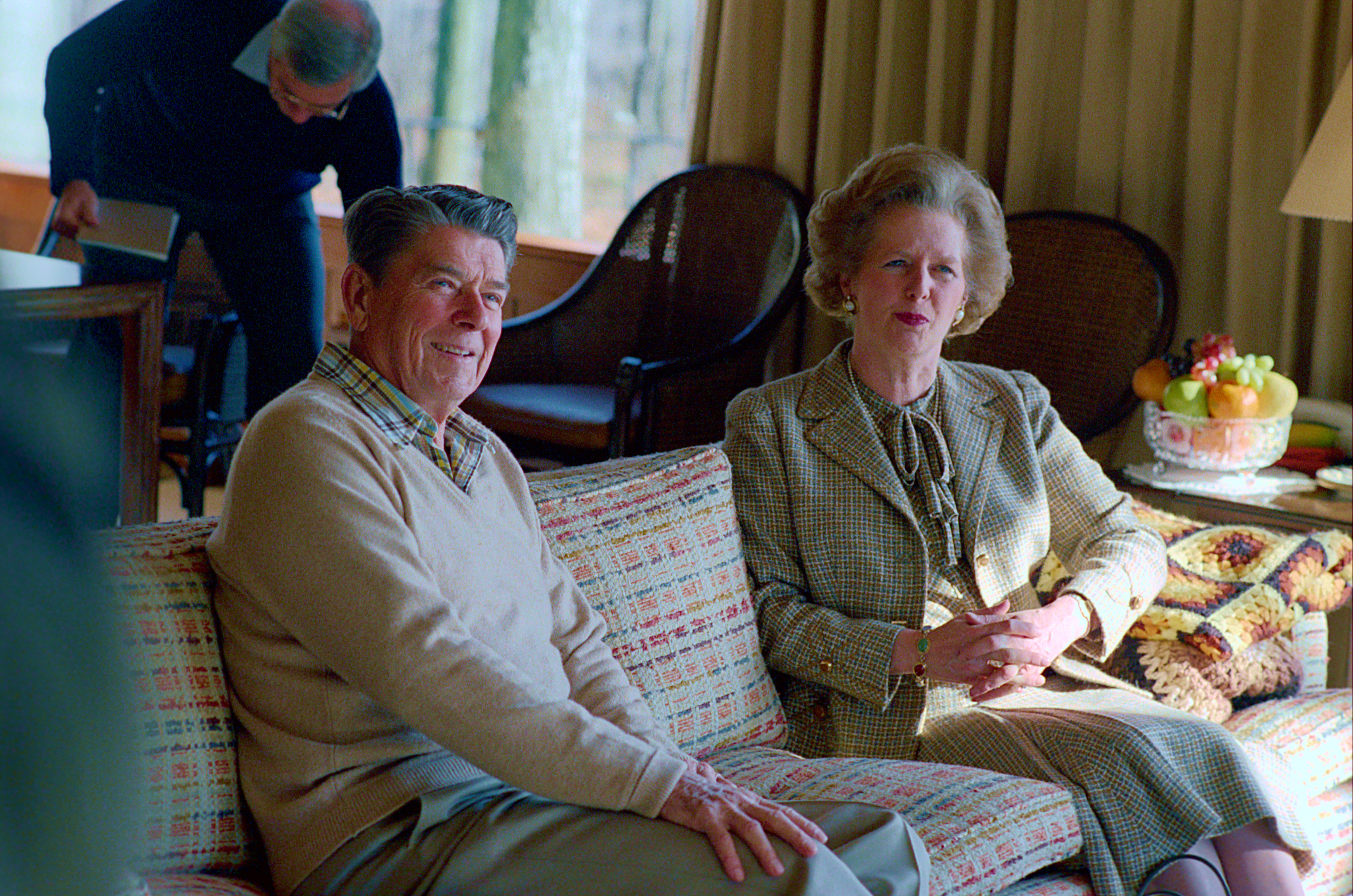 Depicted people: Ronald Reagan and Margaret Thatcher